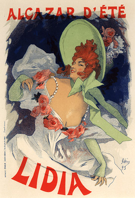 Affiche: Lidia